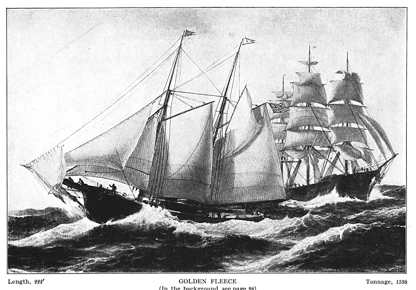 Golden Fleece clipper ship ((in the background.) See page 38.) N. B. Page 38 does not identify the ship in the foreground.